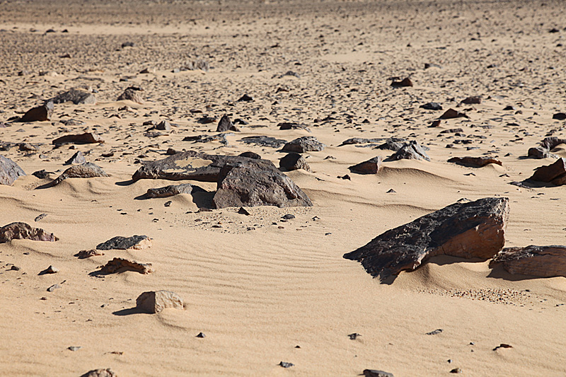 Silica Glass Area, Egyptian Sand Sea, Western Desert, Egypt